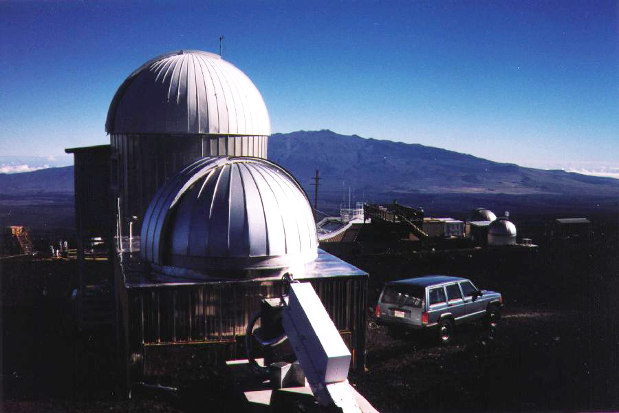 Mauna Loa Solar Observatory, run by the University Corporation for Atmospheric Research. Mauna Kea in backround. Big island of Hawaiʻi.